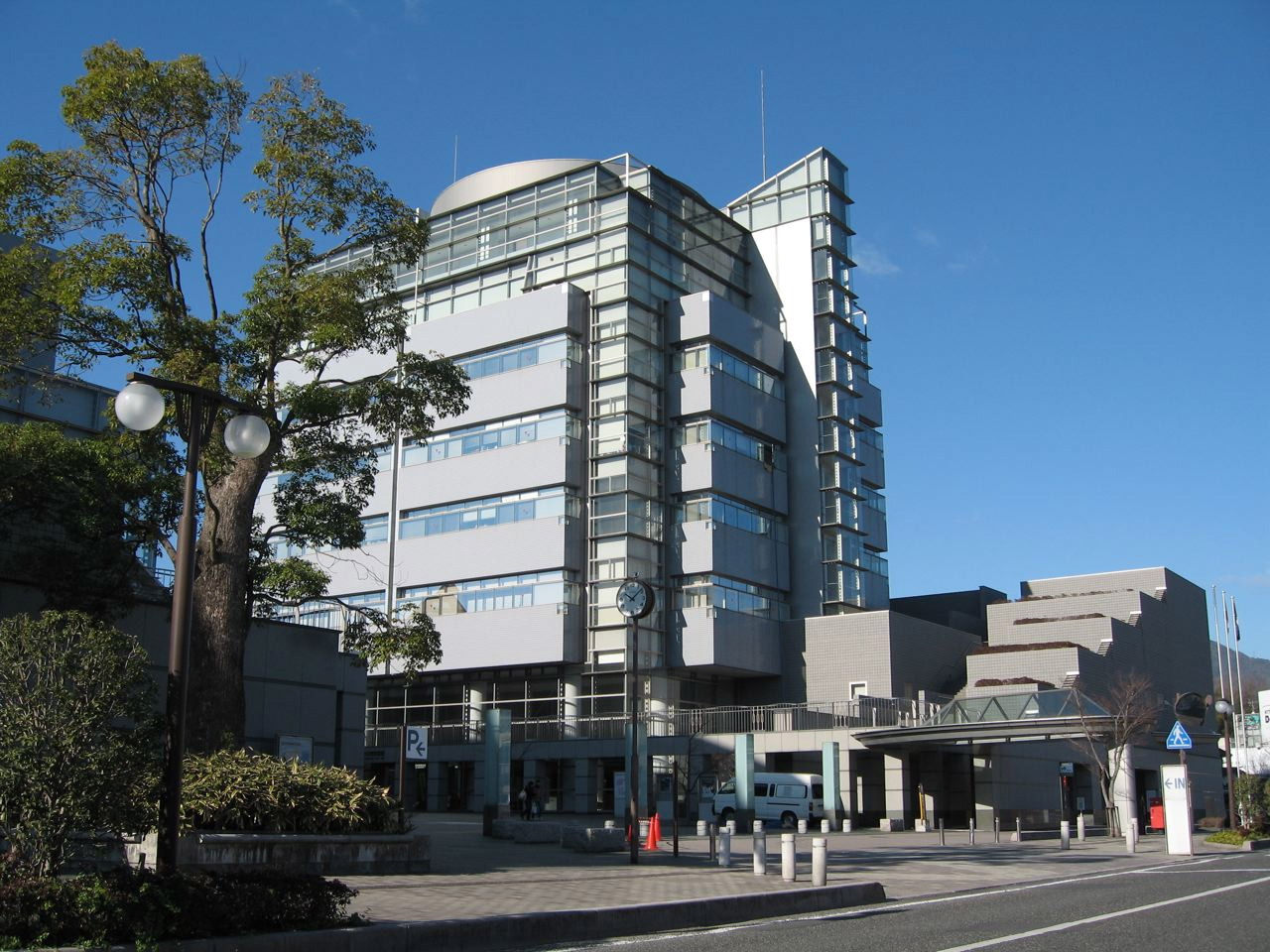 Hatsukaichi City Hall Complex 廿日市市庁舎